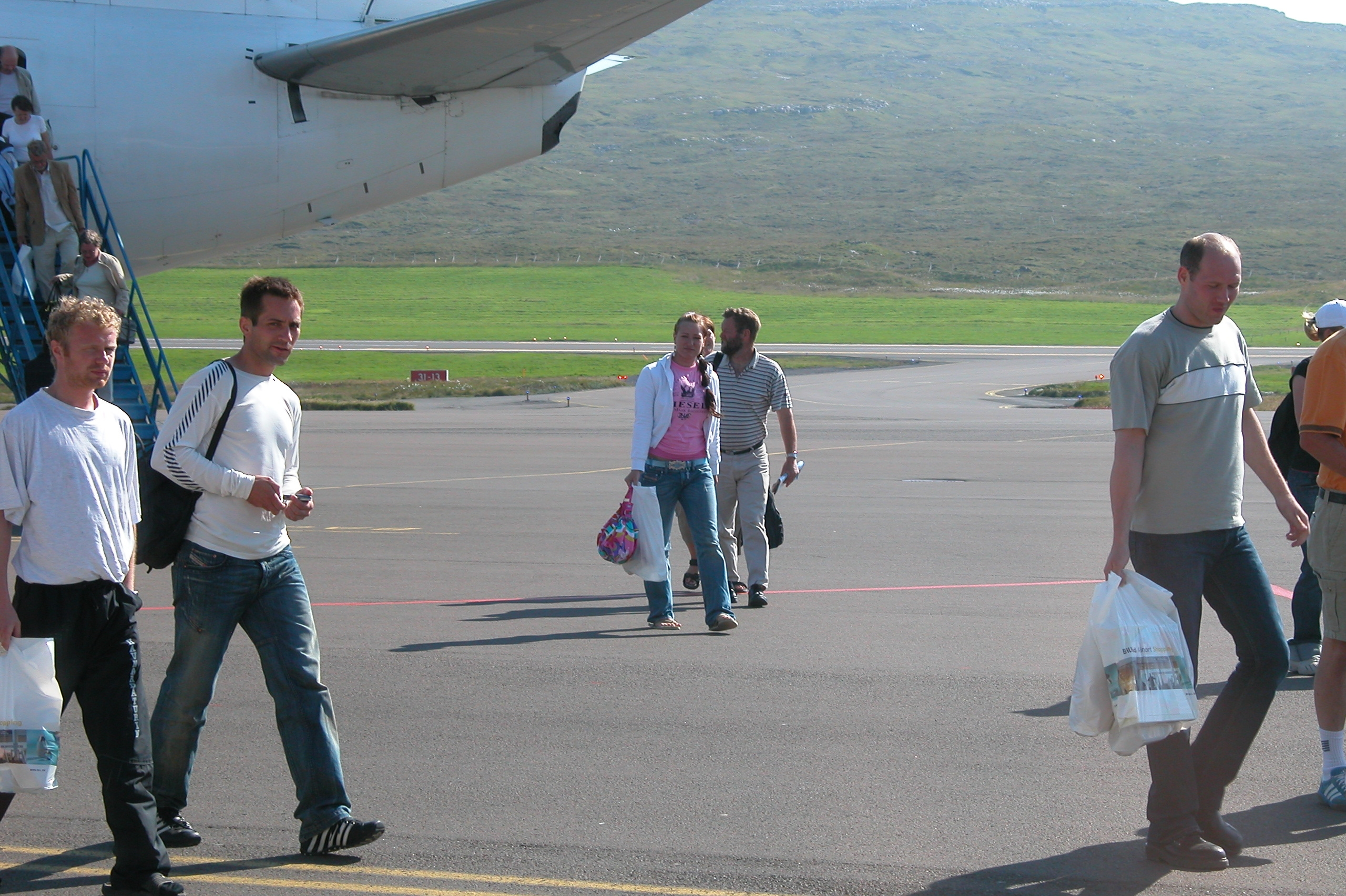 Plane landing Vágar Airport on Vágar, Faroe Islands.